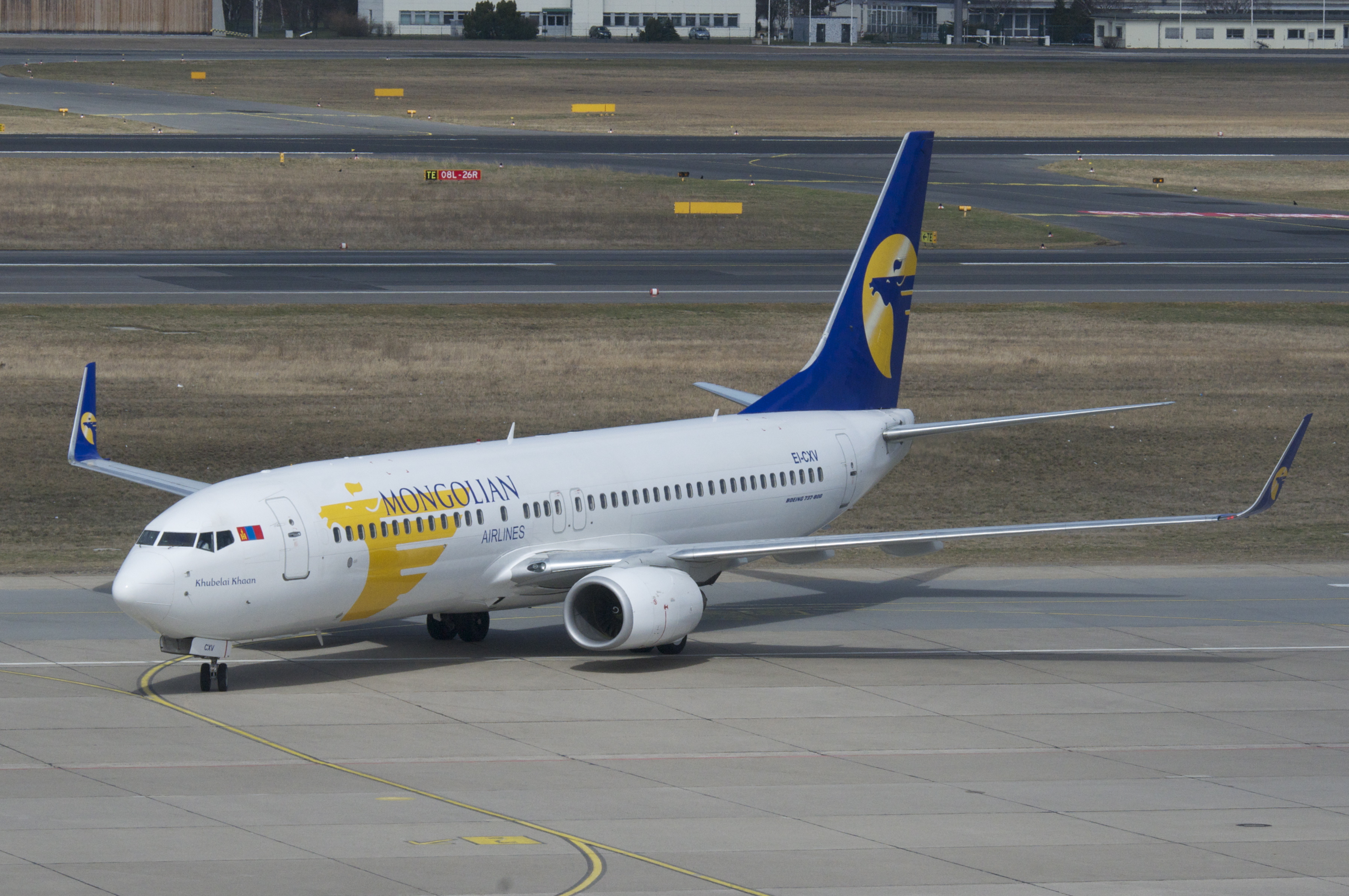 Mongolian Airlines Boeing 737-800; EI-CXV@TXL;14.04.2013/704br